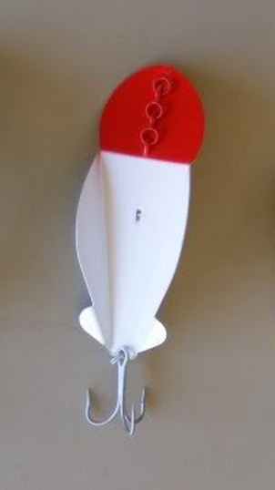 Example of Spoonplug